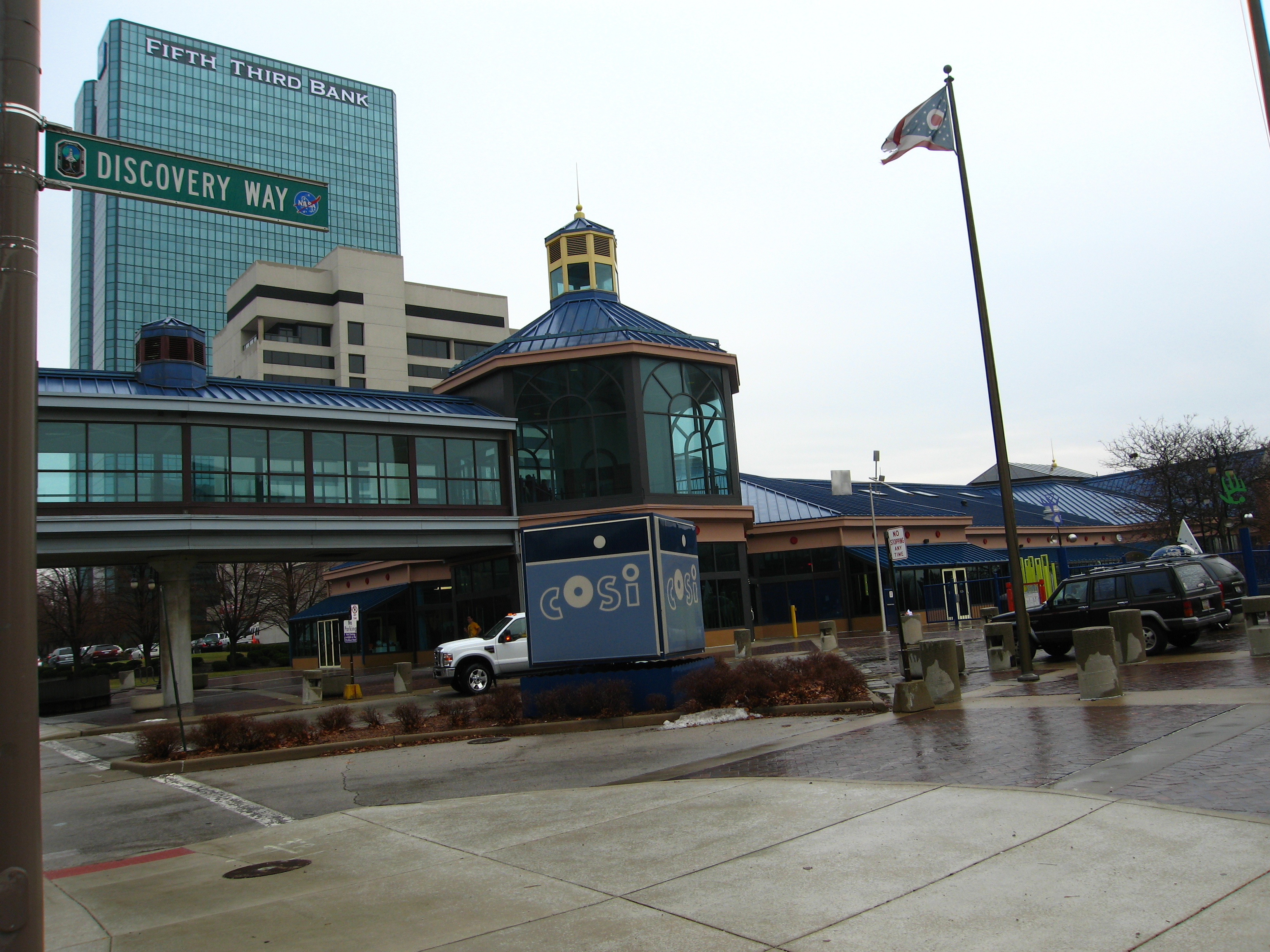 The main entrance of the COSI Toledo science museum located at 1 Discovery Way in downtown Toledo, Ohio.